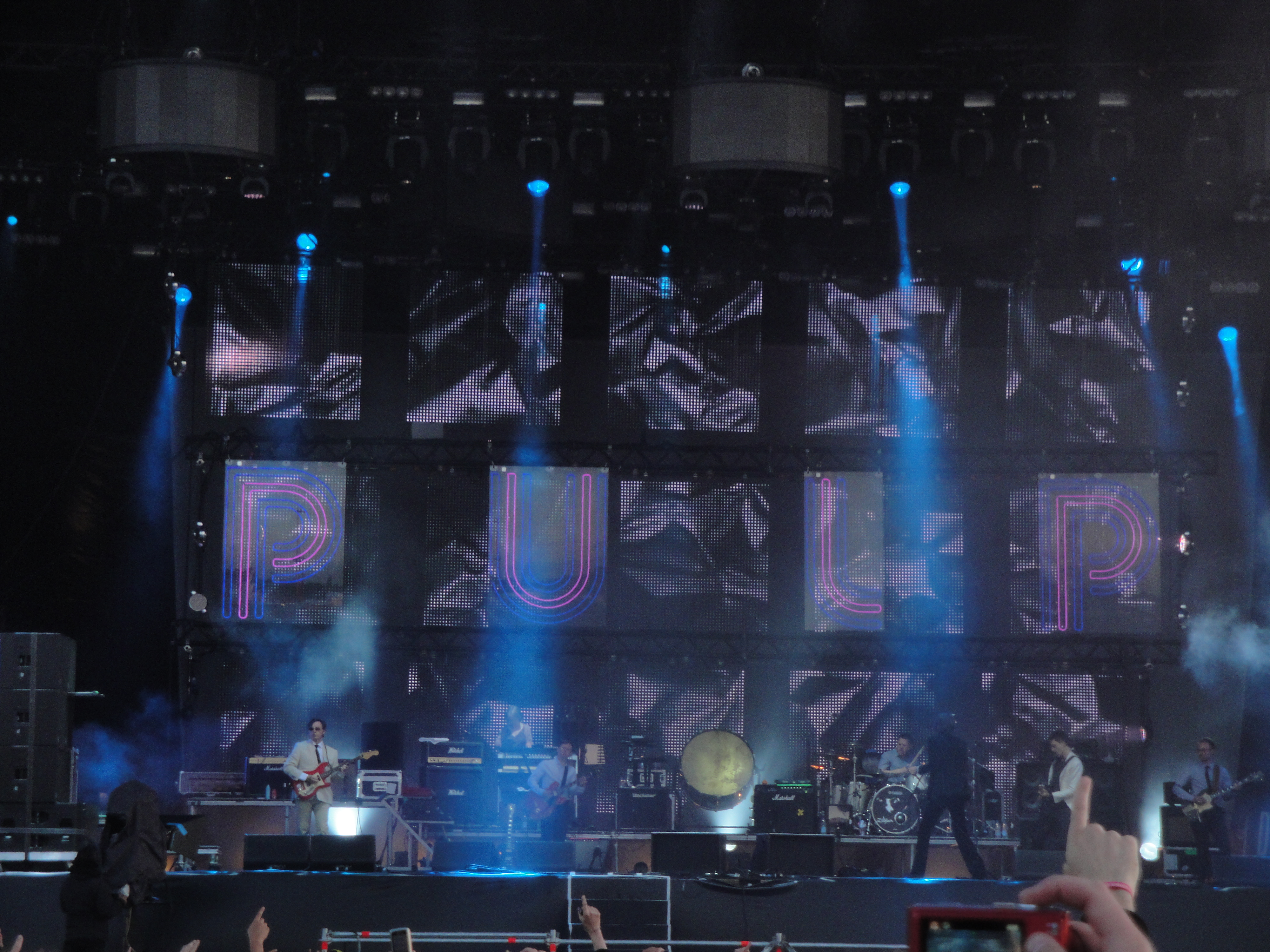 Pulp, performing at the Isle of Wight Festival 2011, held in Seaclose Park, Newport, Isle of Wight.